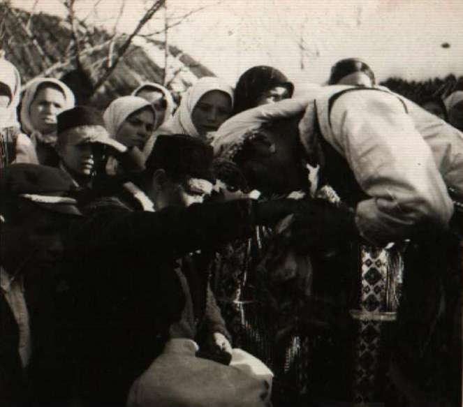 Macedonia